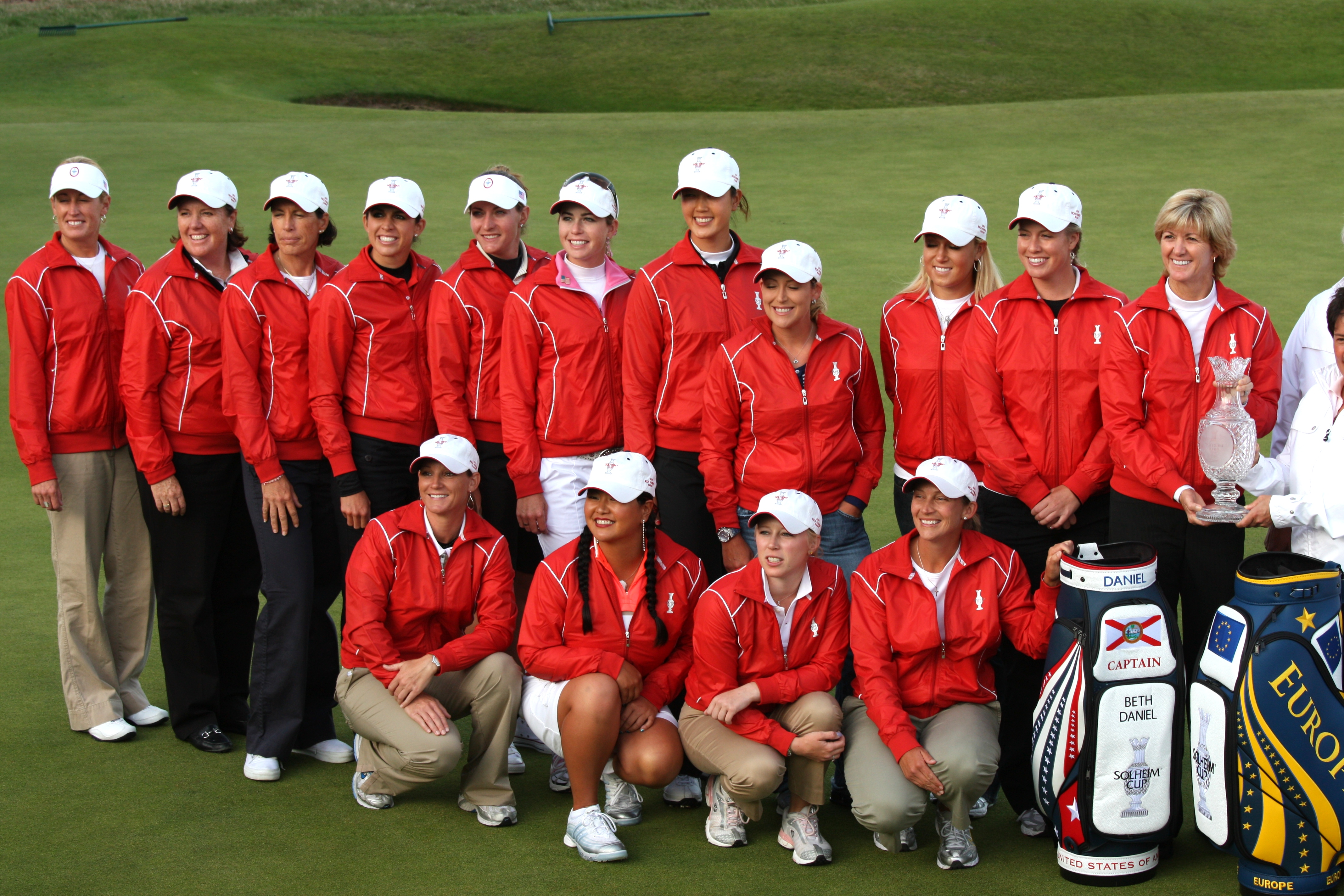 LYTHAM ST ANNES, UNITED KINGDOM - AUGUST 02: The USA Solheim Cup Team, posing for a photograph after announcement of Solheim Cup teams, which followed final round of the 2009 Ricoh Women's British Open held at Royal Lytham & St Annes on August 2, 2009 in Lytham St Annes, England. Clockwise from top-left: Kelly Robbins, Meg Mallon, Juli Inkster, Nicole Castrale, Brittany Lang, Paula Creamer, Michelle Wie, Cristie Kerr, Natalie Gulbis, Brittany Lincicome, Beth Daniel, Angela Stanford, Morgan Pressel, Christina Kim, and Kristy McPherson. (Photo by Wojciech Migda)